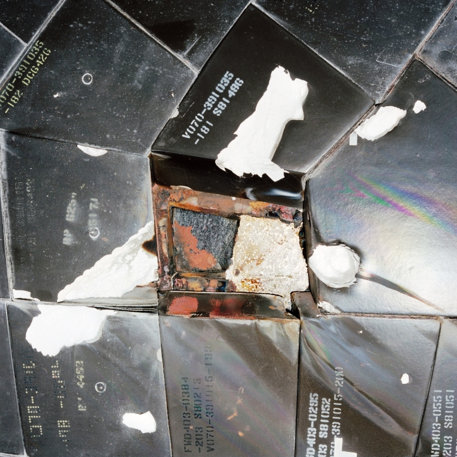 Partially melted aluminum mounting plate for the L-band antenna due to thermal protection tile loss in STS-27